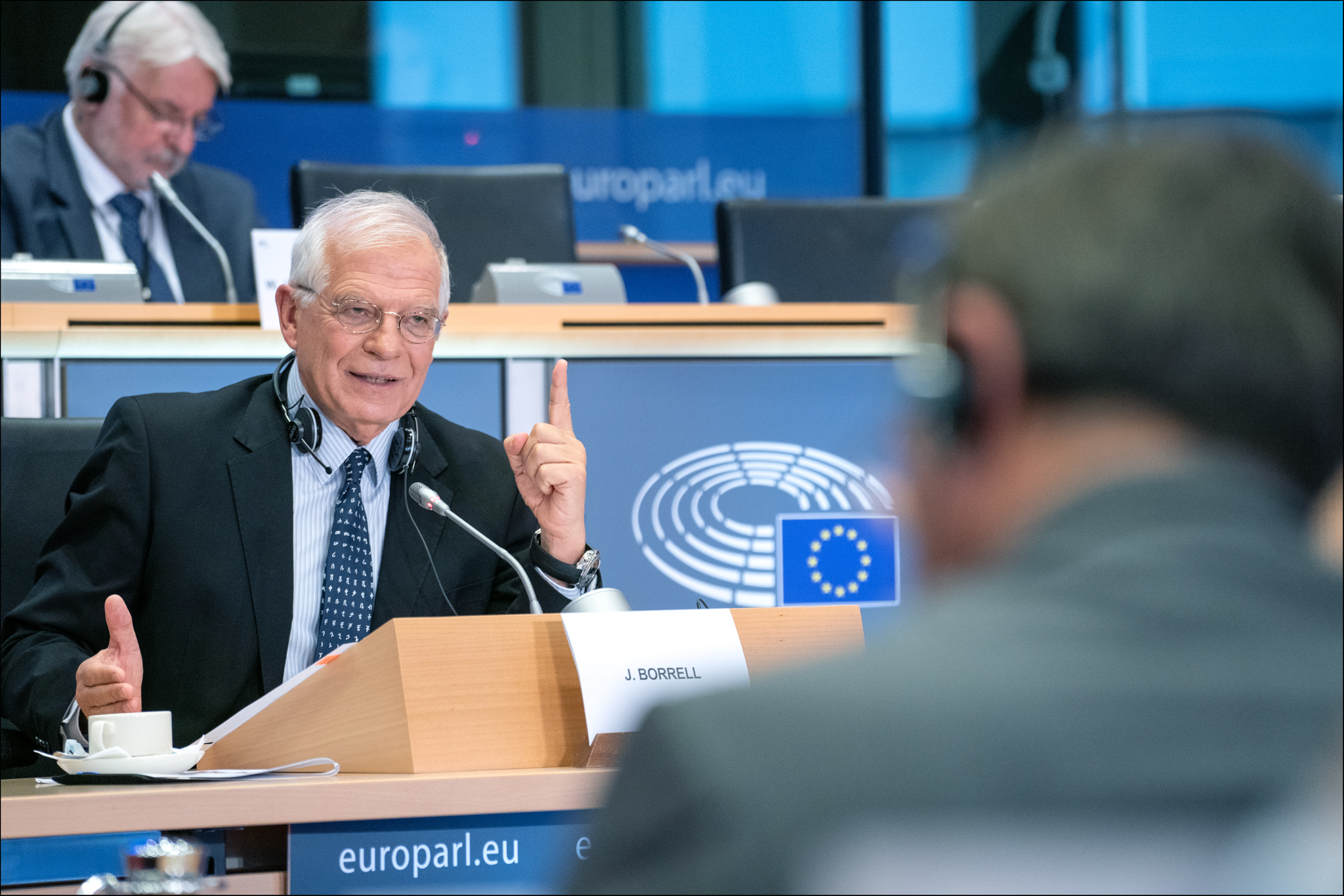 Before the European Parliament can vote the new European Commission led by Ursula von der Leyen into office, parliamentary committees will assess the suitability of commissioners-designate. On 23-26 May, more than 200,000,000 people in 28 EU countries went to the polls to elect members of the European Parliament, giving them a strong democratic mandate, including voting into office the new European Commission and examining the competencies and abilities of its commissioners-designate. Elected members of the European Parliament will also listen to their ideas and will assess their willingness to take concrete actions on the issues that Europeans care about. Each candidate commissioner is invited for a live-streamed, three-hour hearing in front of the committee or committees responsible for their proposed portfolio. The hearings will take place between Monday 30 September and Tuesday 8 October. This photo is free to use under Creative Commons license CC-BY-4.0 and must be credited: "CC-BY-4.0: © European Union 2019 – Source: EP". No model release form if applicable. For bigger HR files please contact: webcom-flickr(AT)